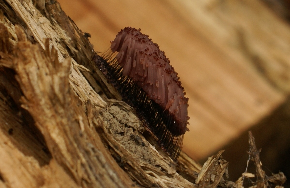 Slime Mould Stemonitis fusca, seen here on dead wood, spontaneously forming single body from mass of individual cells. Body length approximately 2cm.